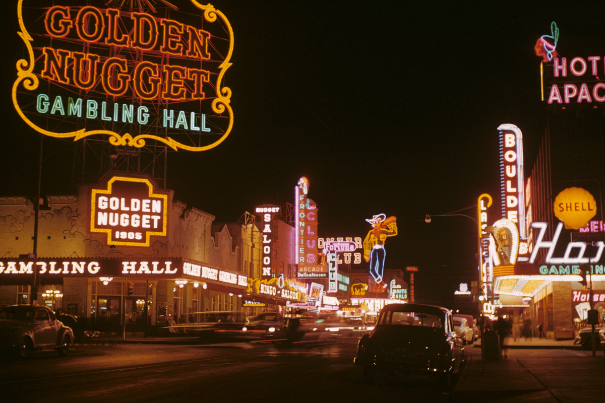 Fremont Street — at night in Downtown Las Vegas in 1952. With the former neon signs of the Golden Nugget Casino on the left, and neon Vegas Vic cowboy in distance.